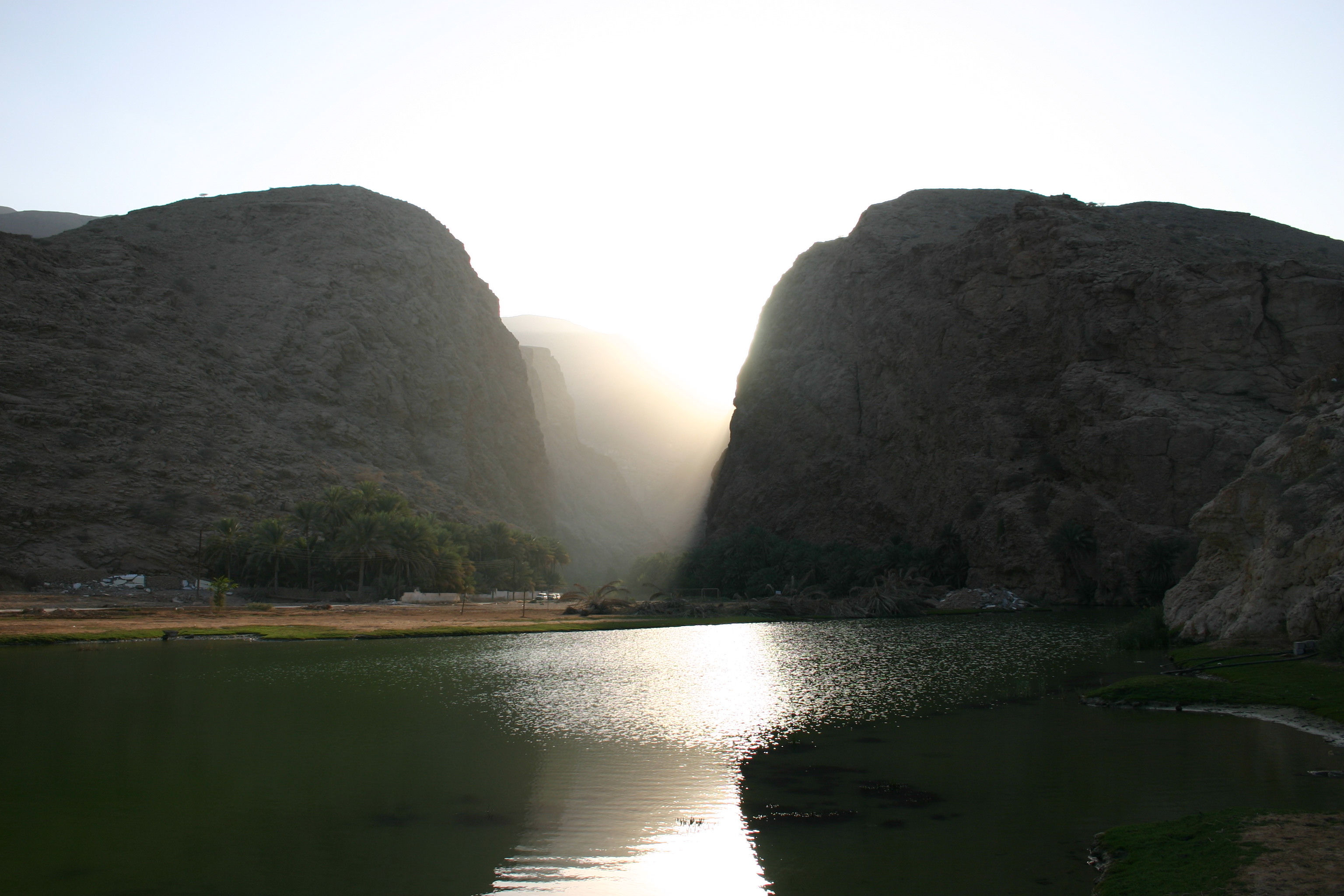 Wadi Shab, Oman, 2004. Photo by Bertil Videt